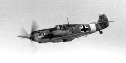 Jagdflugzeug Messerschmitt Me 109 E des I./Jagdgeschwader 27 (JG 27)